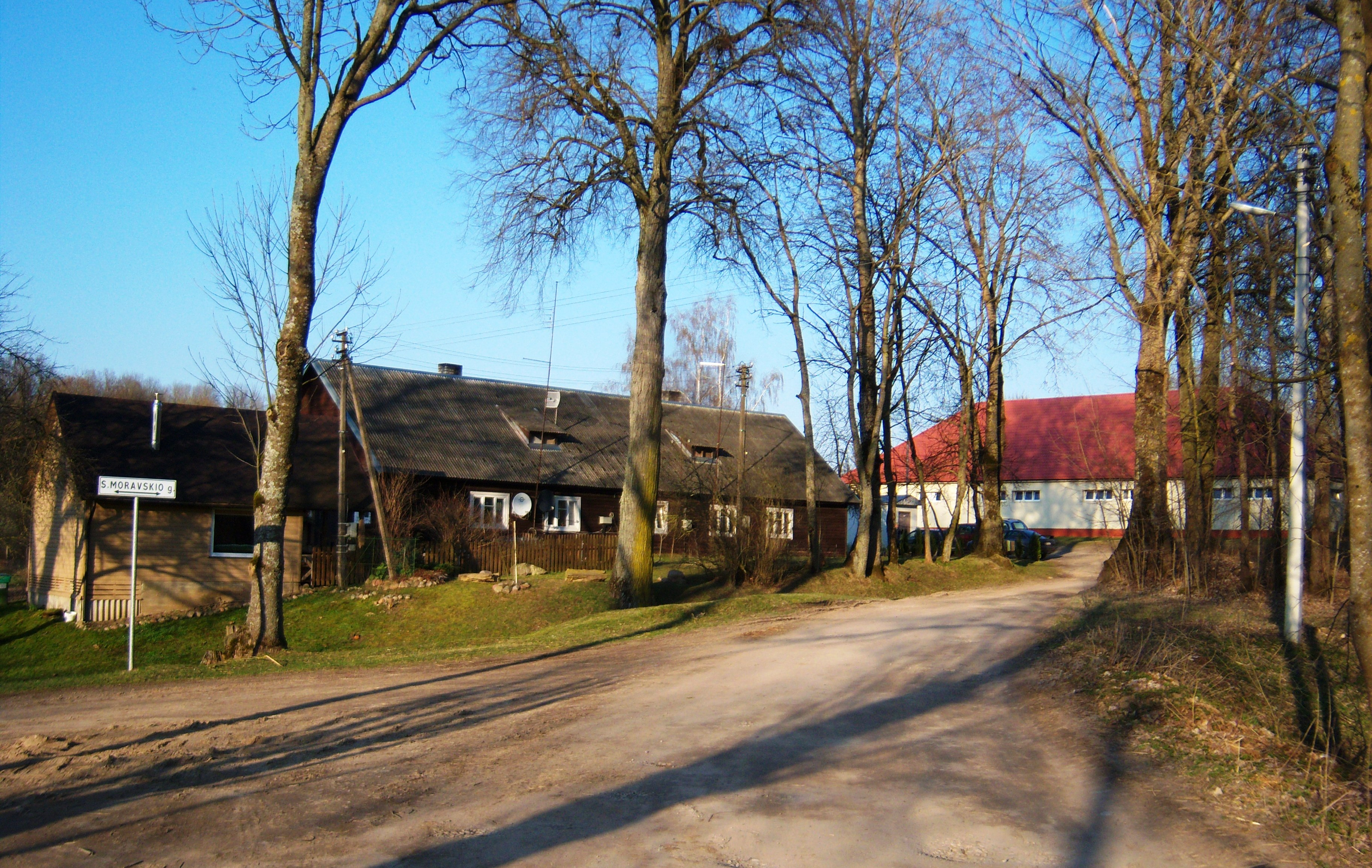 Jundeliškės, Birštonas municipality, Lithuania